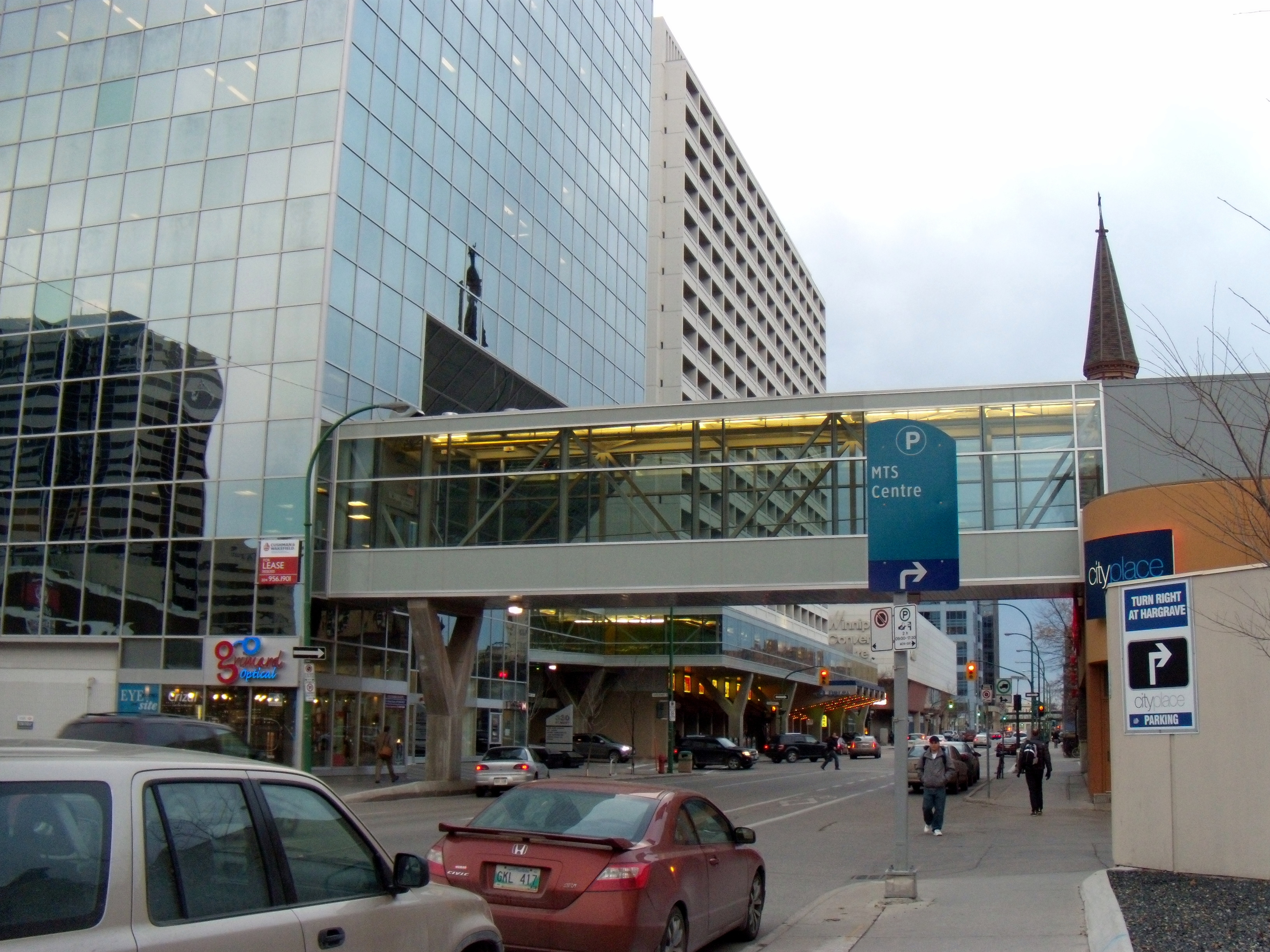 Winnipeg Walkway skywalk interior section spanning St Mary Ave